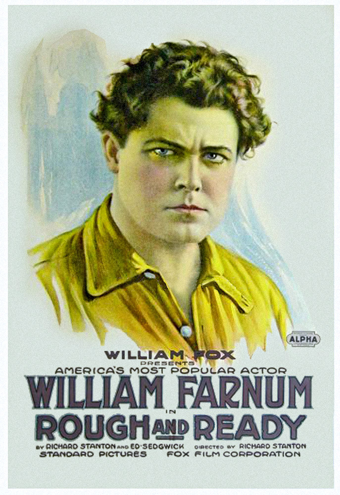 Poster for the American drama film Rough and Ready (1918).